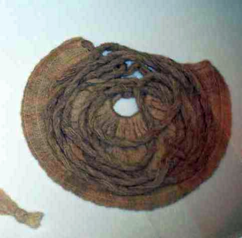 Reconstruction of the bronzeage hairnet from Skrydstrup, shown in Haderslev Museum, Danmark.